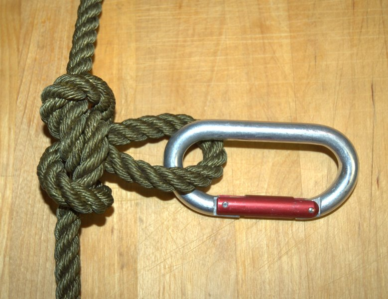 An alpine butterfly knot with a carabiner tied in U.S. Army-issue climbing rope.